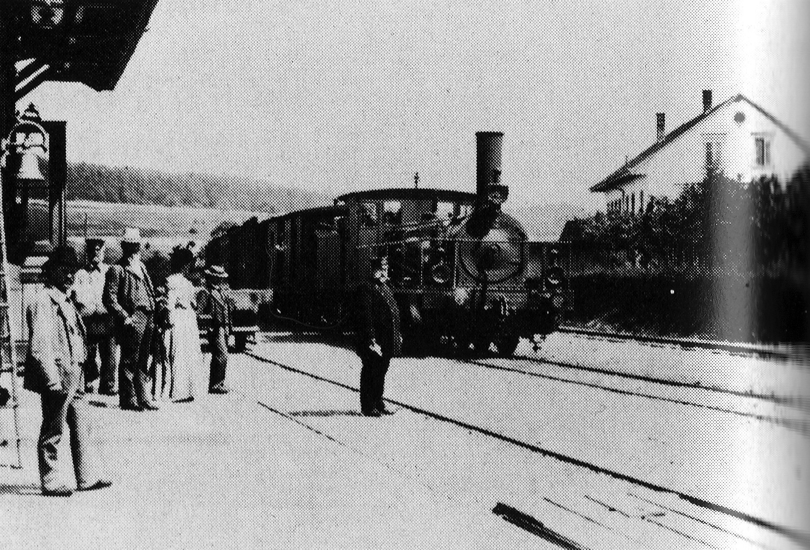 Train coming into Baſſersdorff Railway Station, with Staion Master Schlatter ſtanding in the center of the Image; Picture taken around 1905.